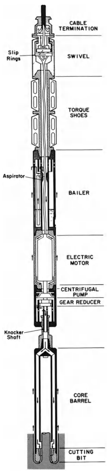 Diagram of electrodrill used by CRREL in the 1960s